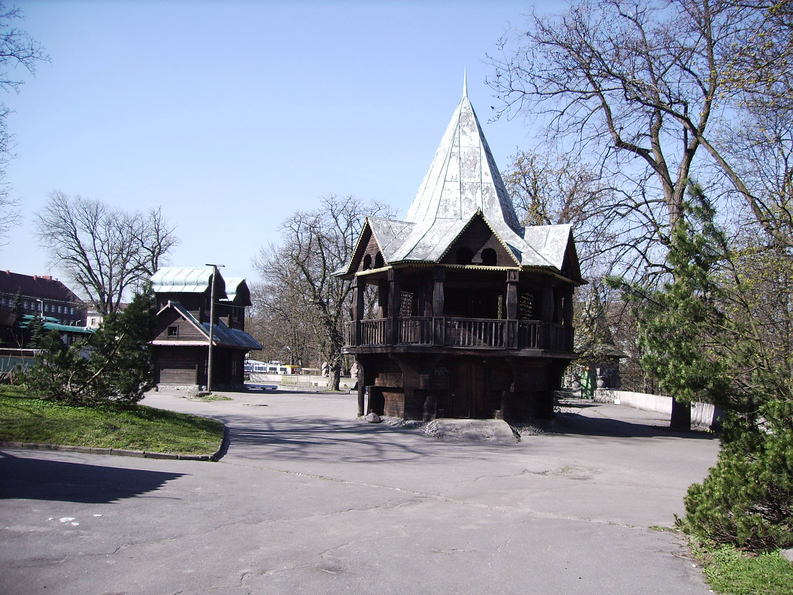 Remains of "Fairy tales town" in Kaliningrad zoo.